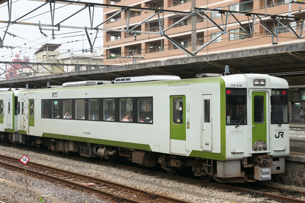 JR East KiHa 110-200 series DMU car KiHa 110-219 on a Hachiko Line service at Takasaki Station